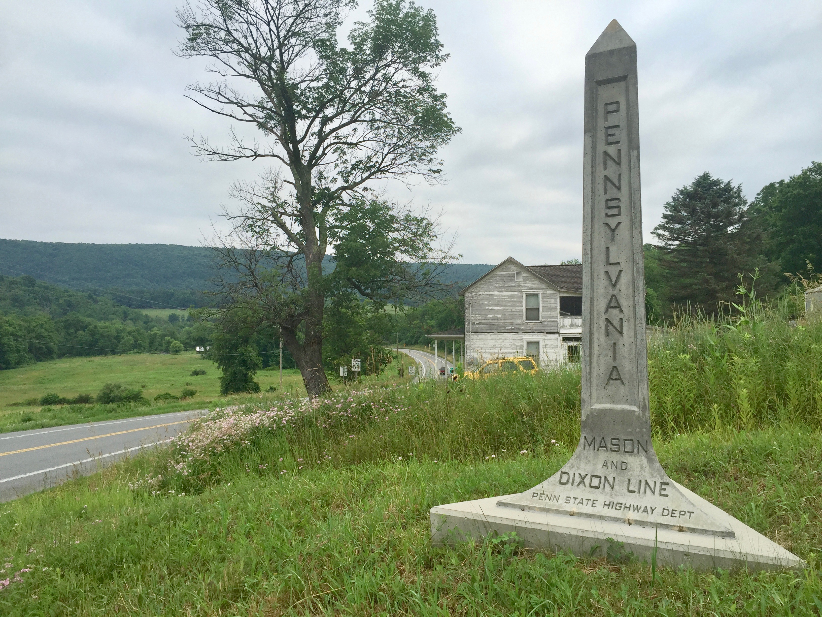 Pennsylvania State Highway Department marker for the Mason-Dixon Line on northbound U.S. Route 220 (Bedford Road) entering Cumberland Valley Township, Bedford County, Pennsylvania from Allegany County, Maryland